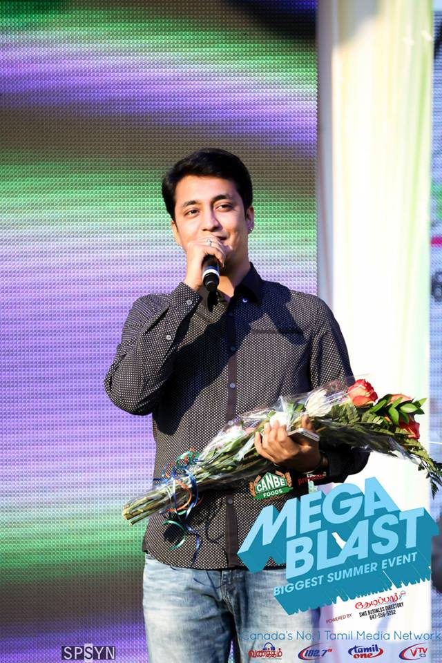 Singer Krishna Iyer at Canada